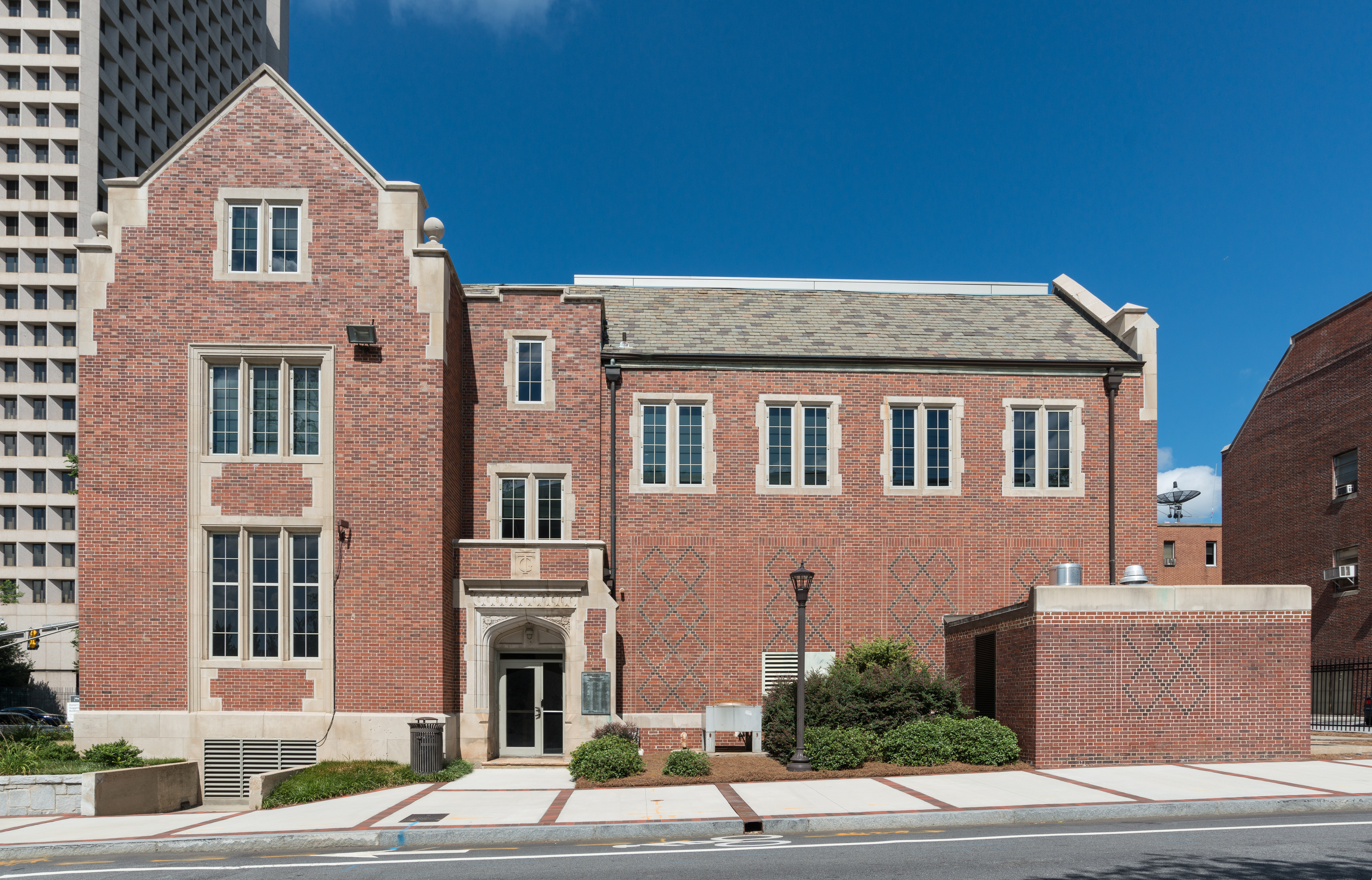 An east view of the Guggenheim Building at Georgia Tech